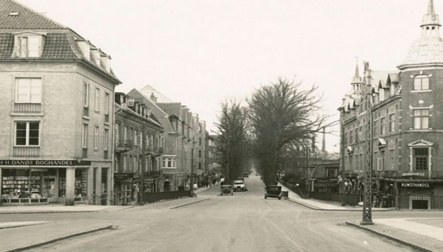 Jægersobrg Allé in Gentofte Municipality, Denmark